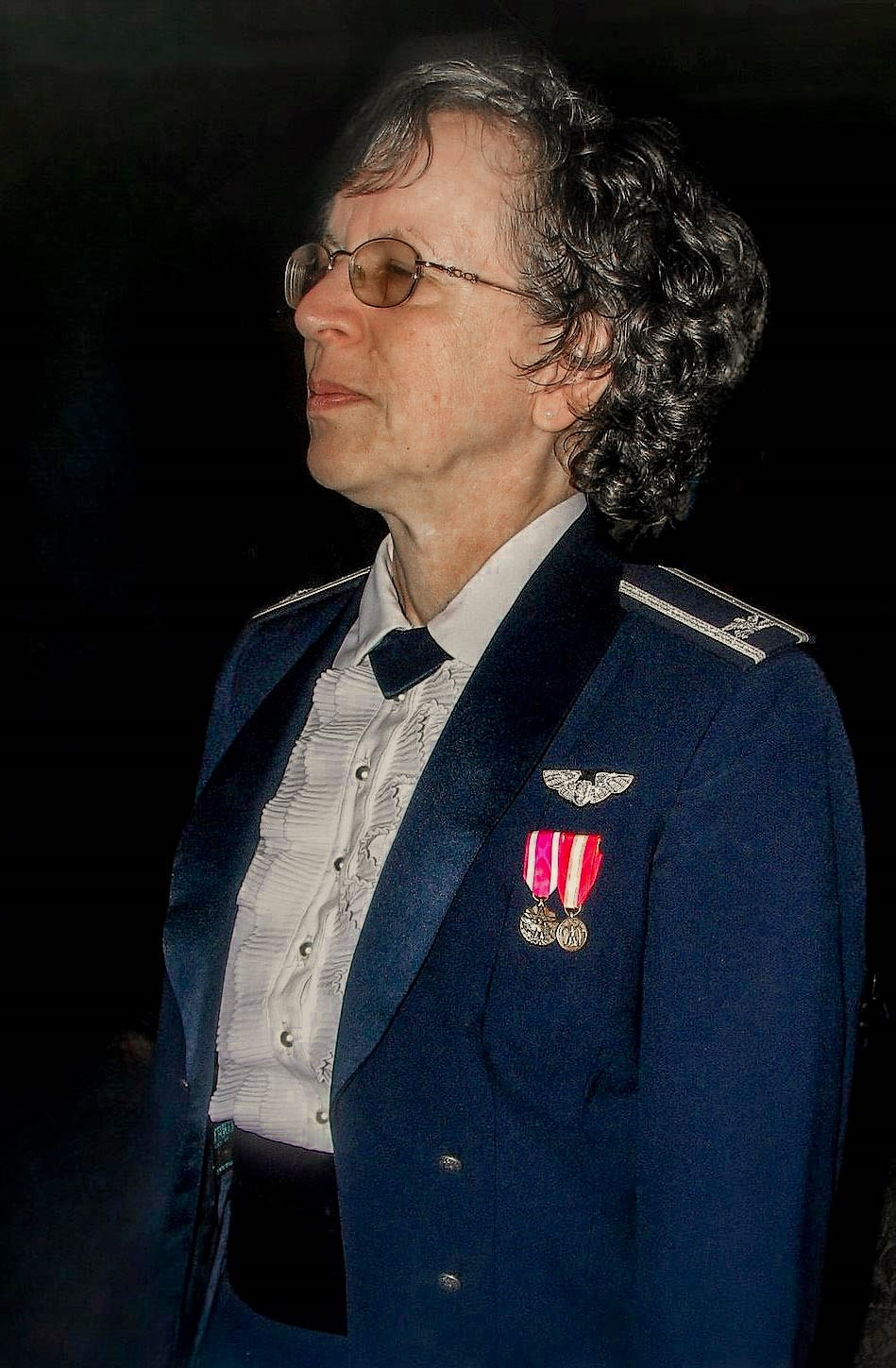 This is a picture of Dr. Harriet Hall on the JREF Amazing Adventure ~ North to Alaska